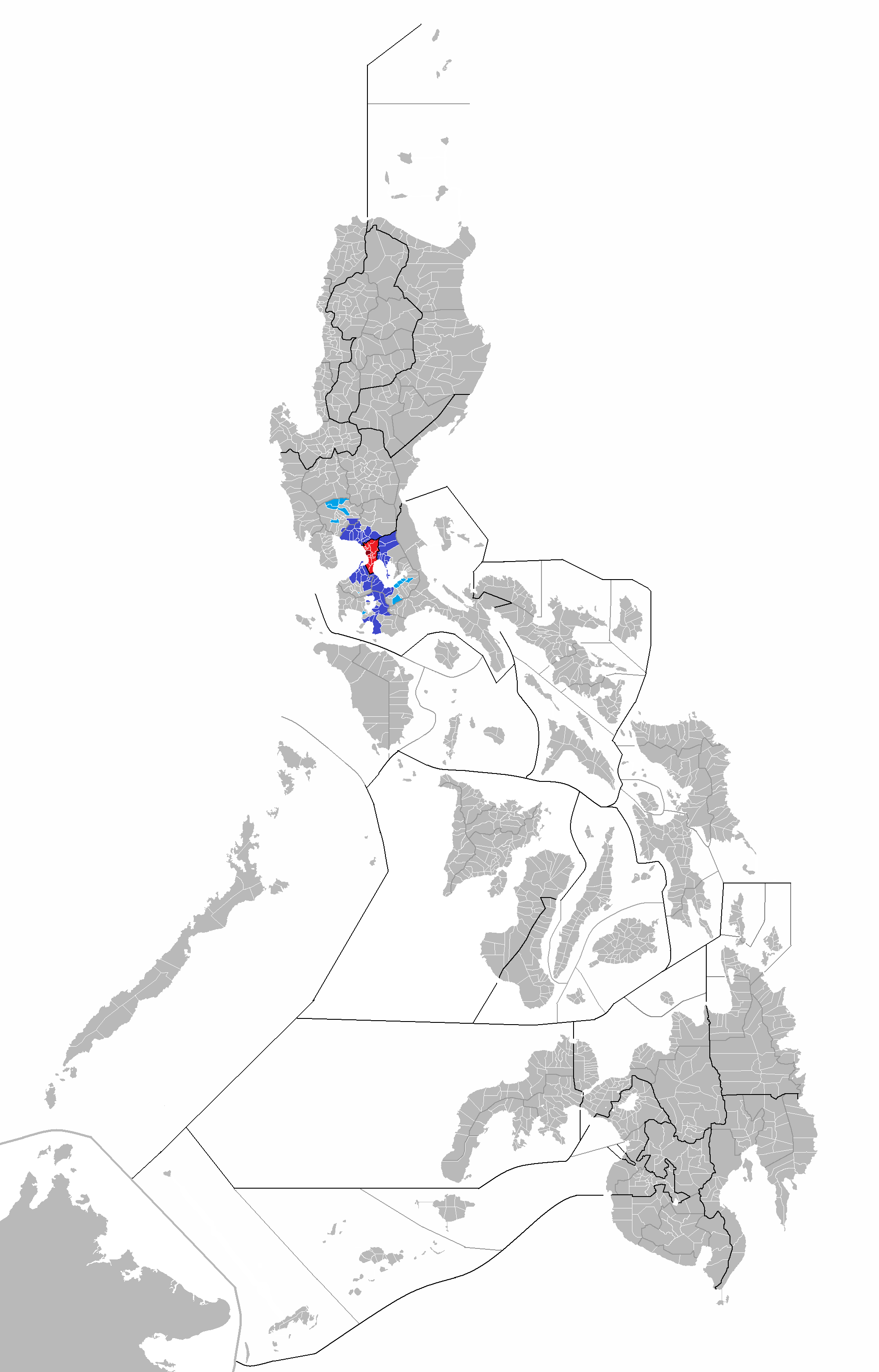 Map of the Philippines showing the Greater Manila Area. Maroon: Manila Red: Metro Manila Blue: Built up area of cities and municipalities outside, and contiguous with, Metro Manila and themselves Light blue: Built up area of cities and municipalities outside, and not contiguous with, Metro Manila.